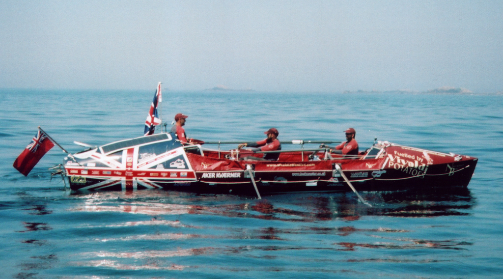 The Vivaldi Atlantic 4 team approach the Isles of Scilly after completing their record crossing of the Atlantic Ocean.